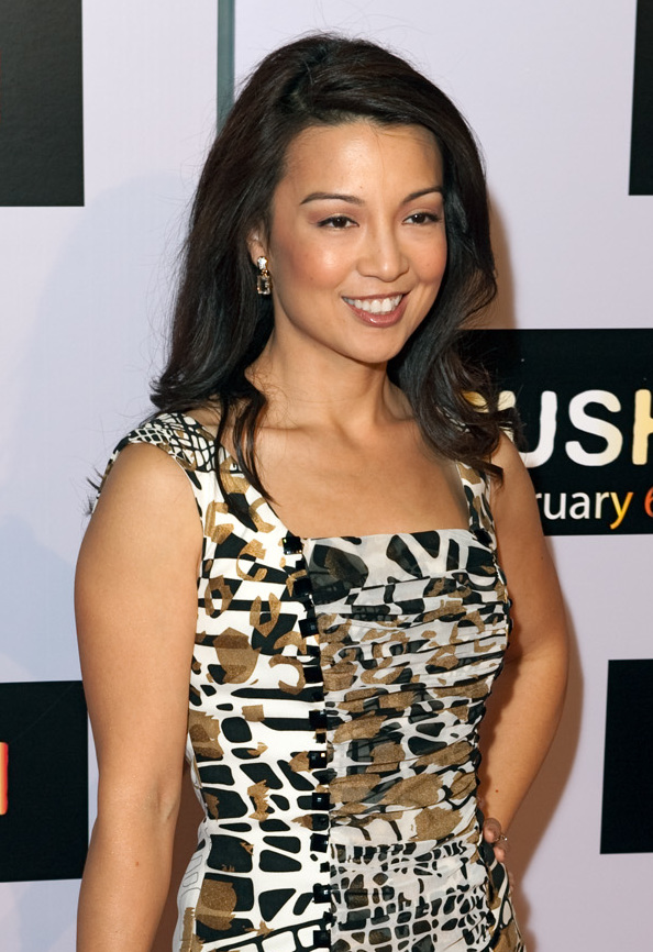 American actress Ming-Na arrives at the premiere of Push, Mann Theater, Westwood.